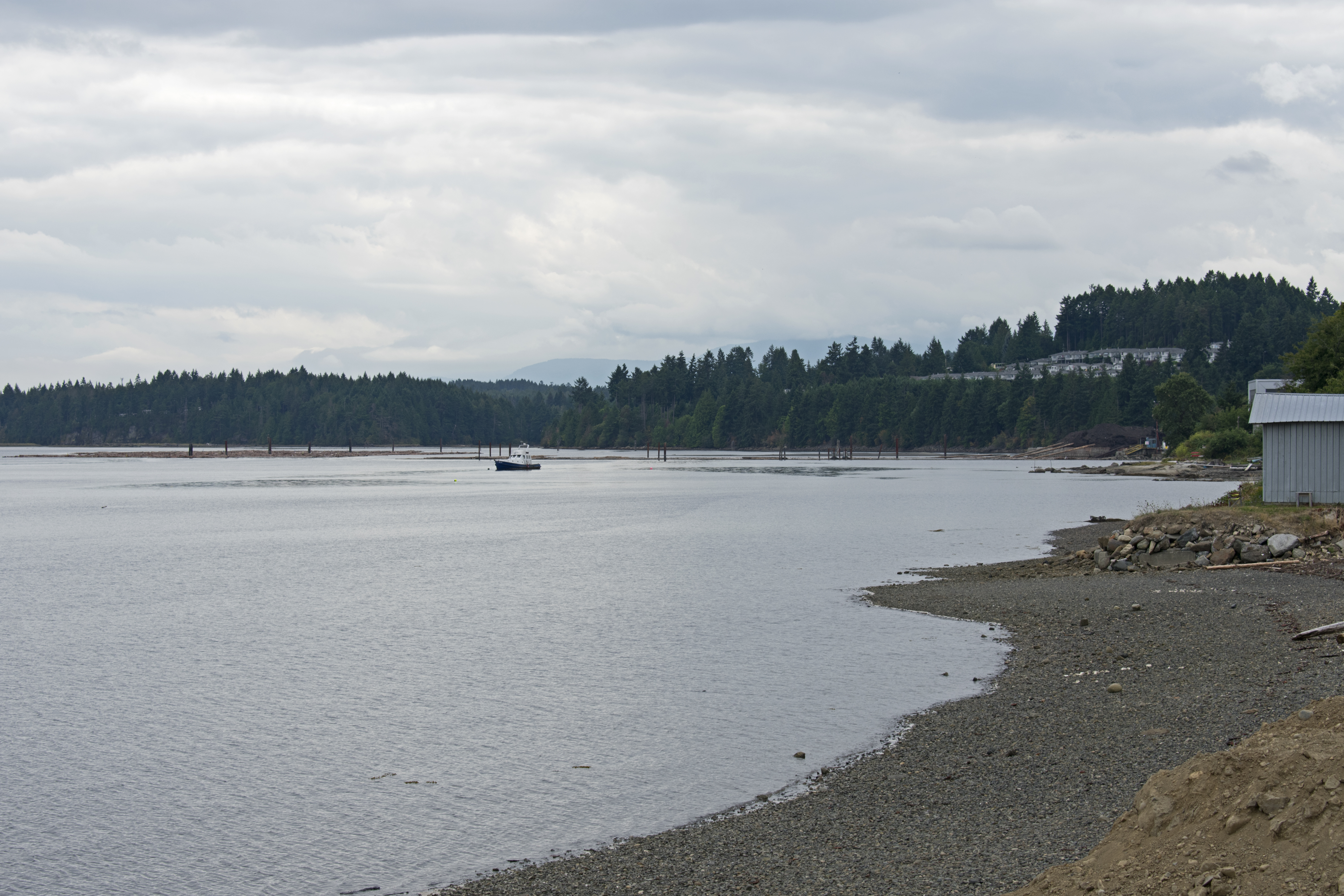 Nanaimo River estuary from the northern end of Shoreline Drive, Snuneymuxw First Nation.